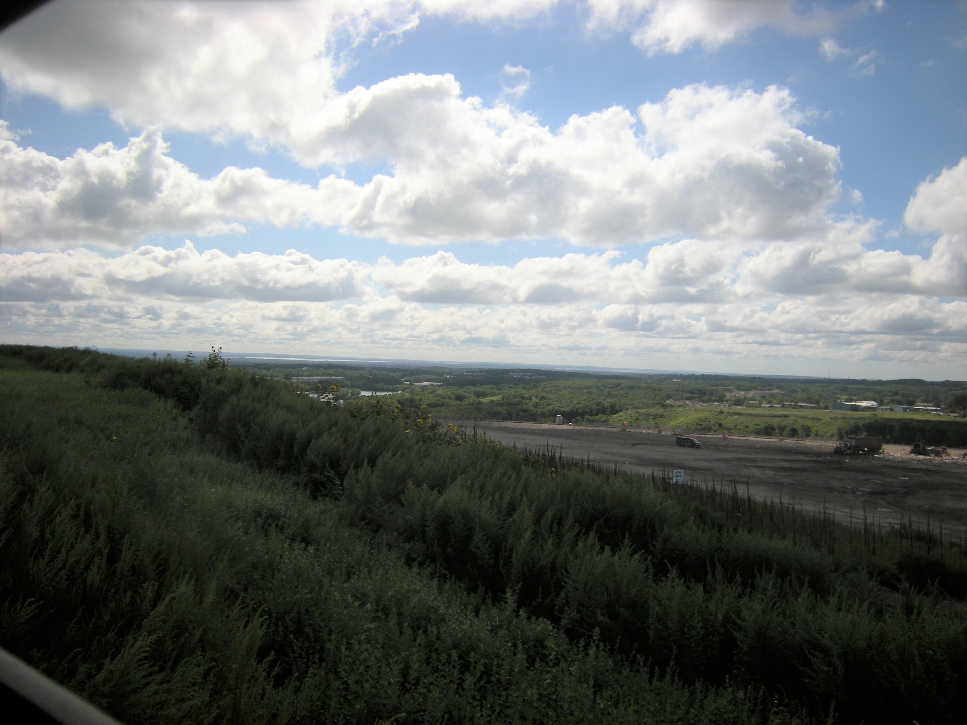 RI Landfile SE View NarragansettBayNewportBridge